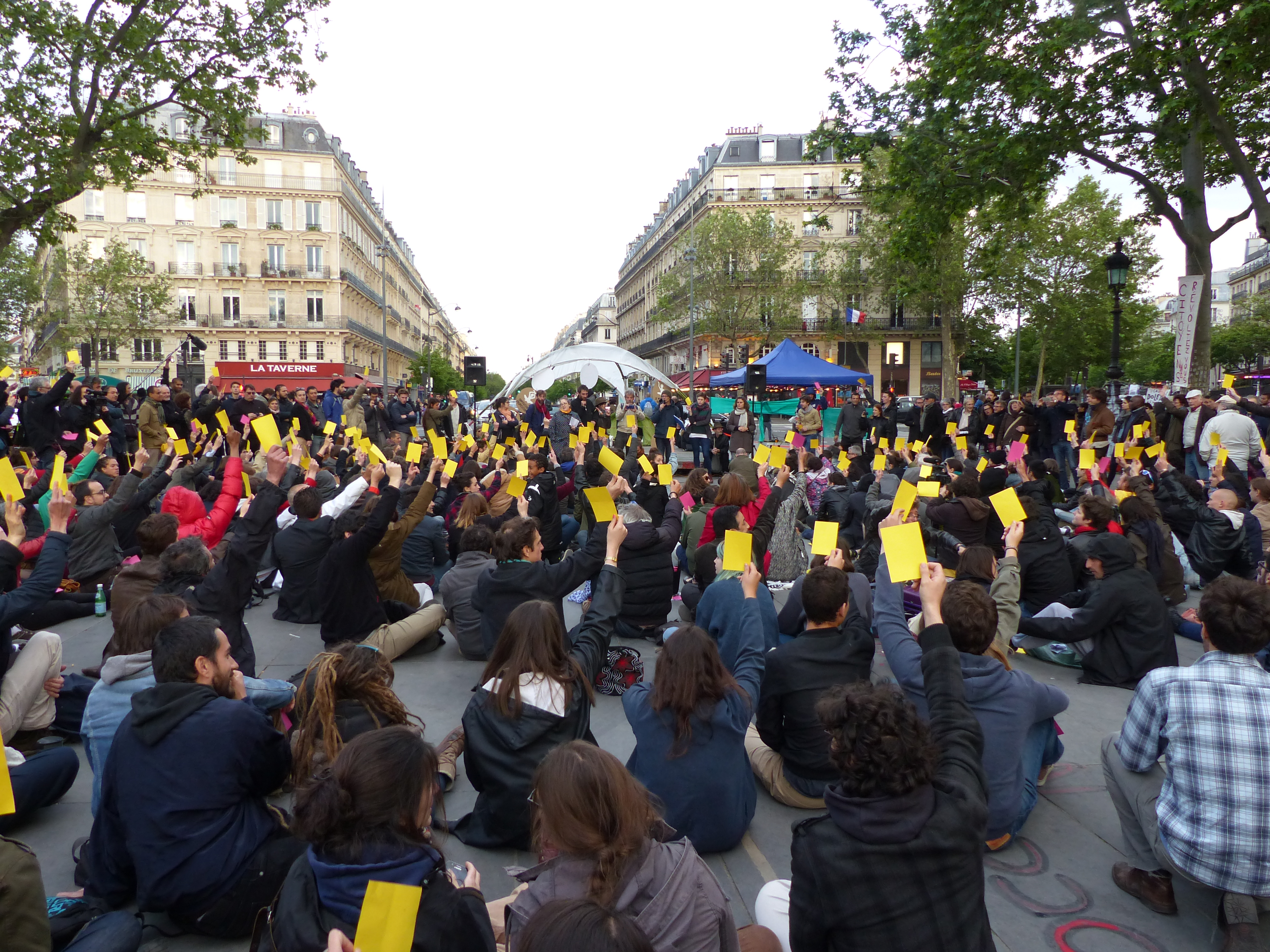 Place de la République, Paris, Europe. Nuit Debout. The place is called Place Commune by participants.The "Nuit Debout" movement began on March 31 to protest the French government's proposed labour reforms and has since grown to encompass a range of grievances, from the plight of migrants to tax evasion.